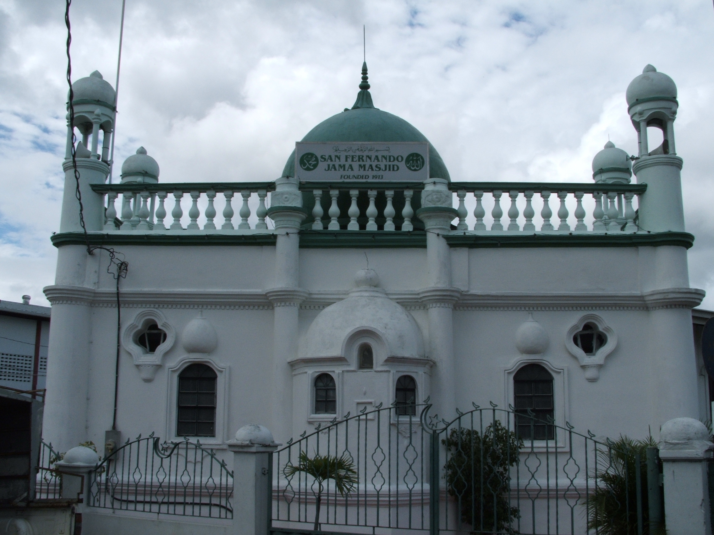 Jama Masjid mosque — on Mucurapo Street in San Fernando, Trinidad and Tobago.